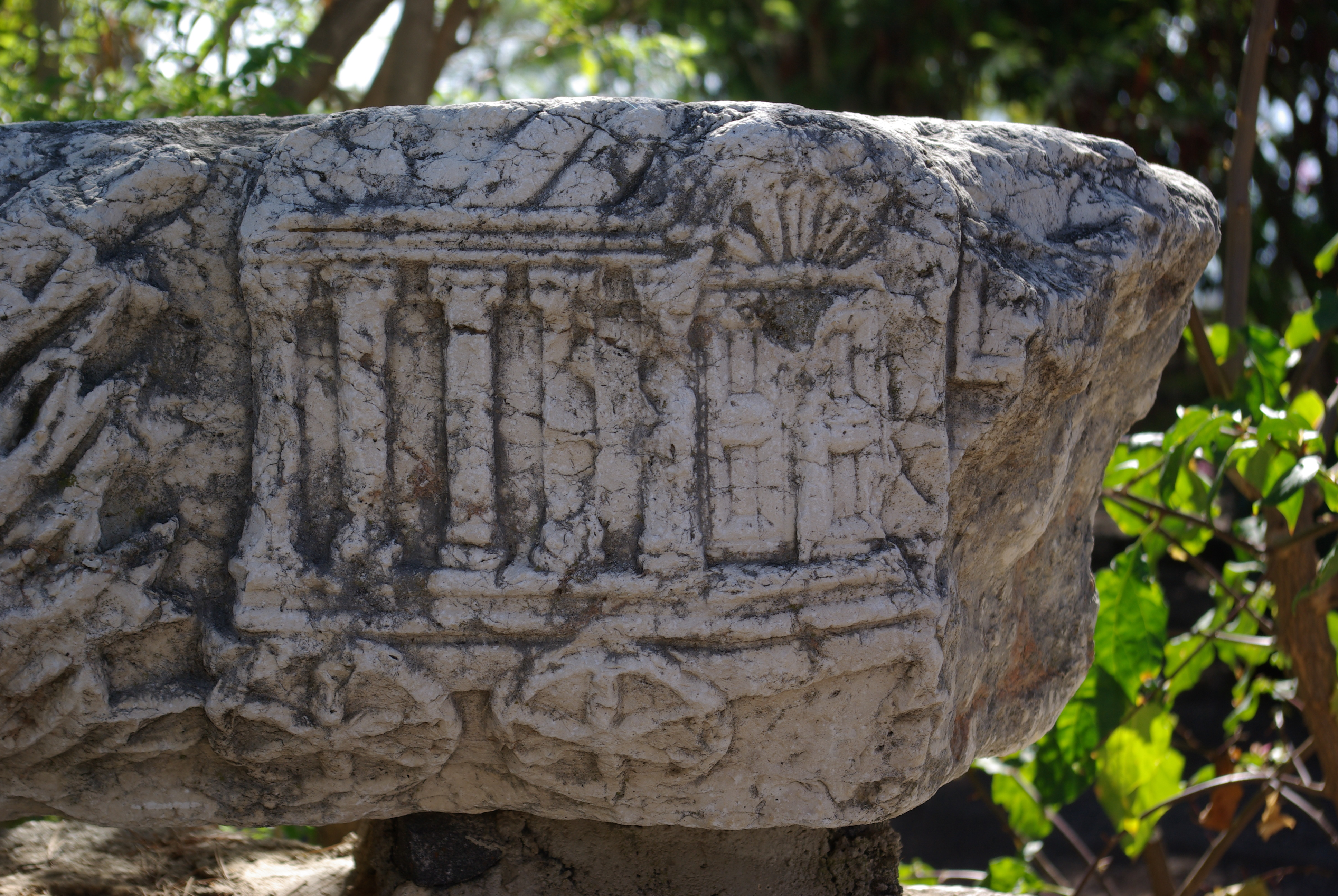 Israel Capernaum Ark of the Covenant